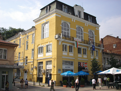 Photo of Dupnica's Centre.